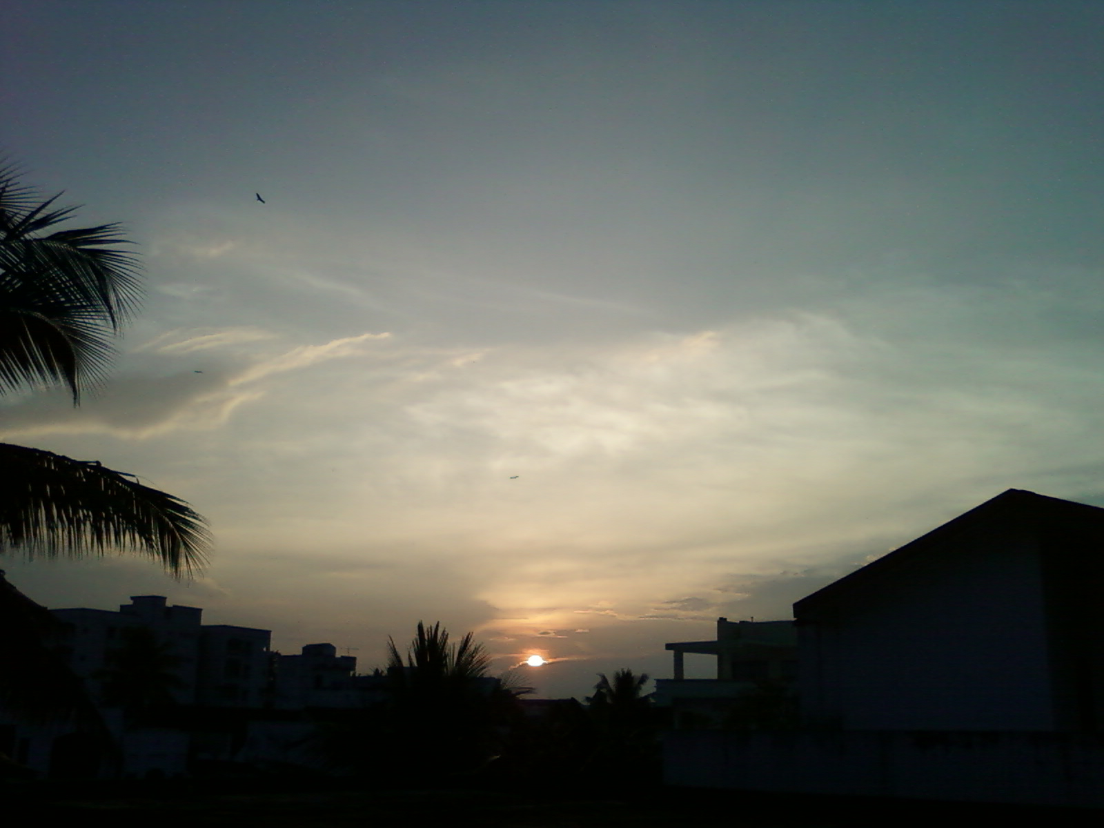 Sunset at Vizianagaram town, Andhra Pradesh